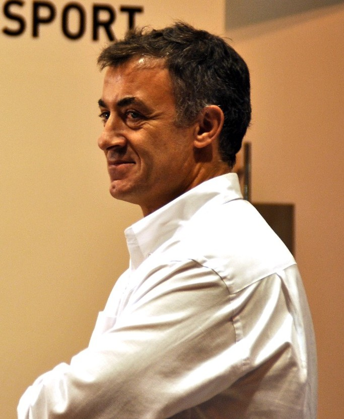 Autosport International Show 2011 - Jean Alesi supporting Lotus Motorsport